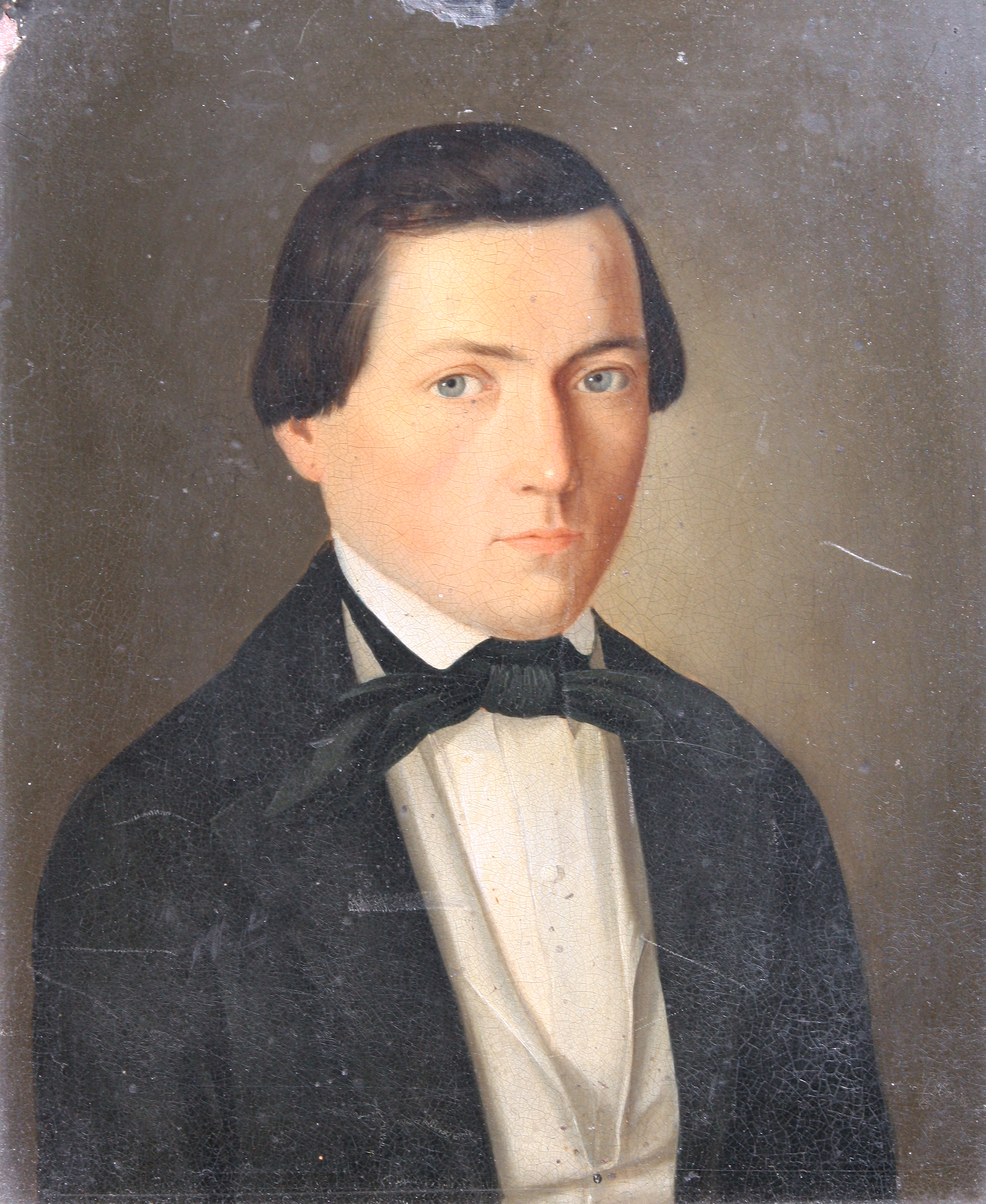 Peter Klein, *17.10.1829, † unknown, 1870/71 Major of Ensheim (Saar)